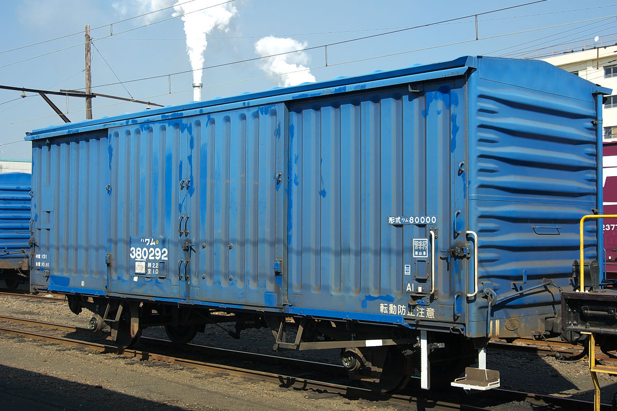 JR Freight type Wamu 80000 freight wagon car.